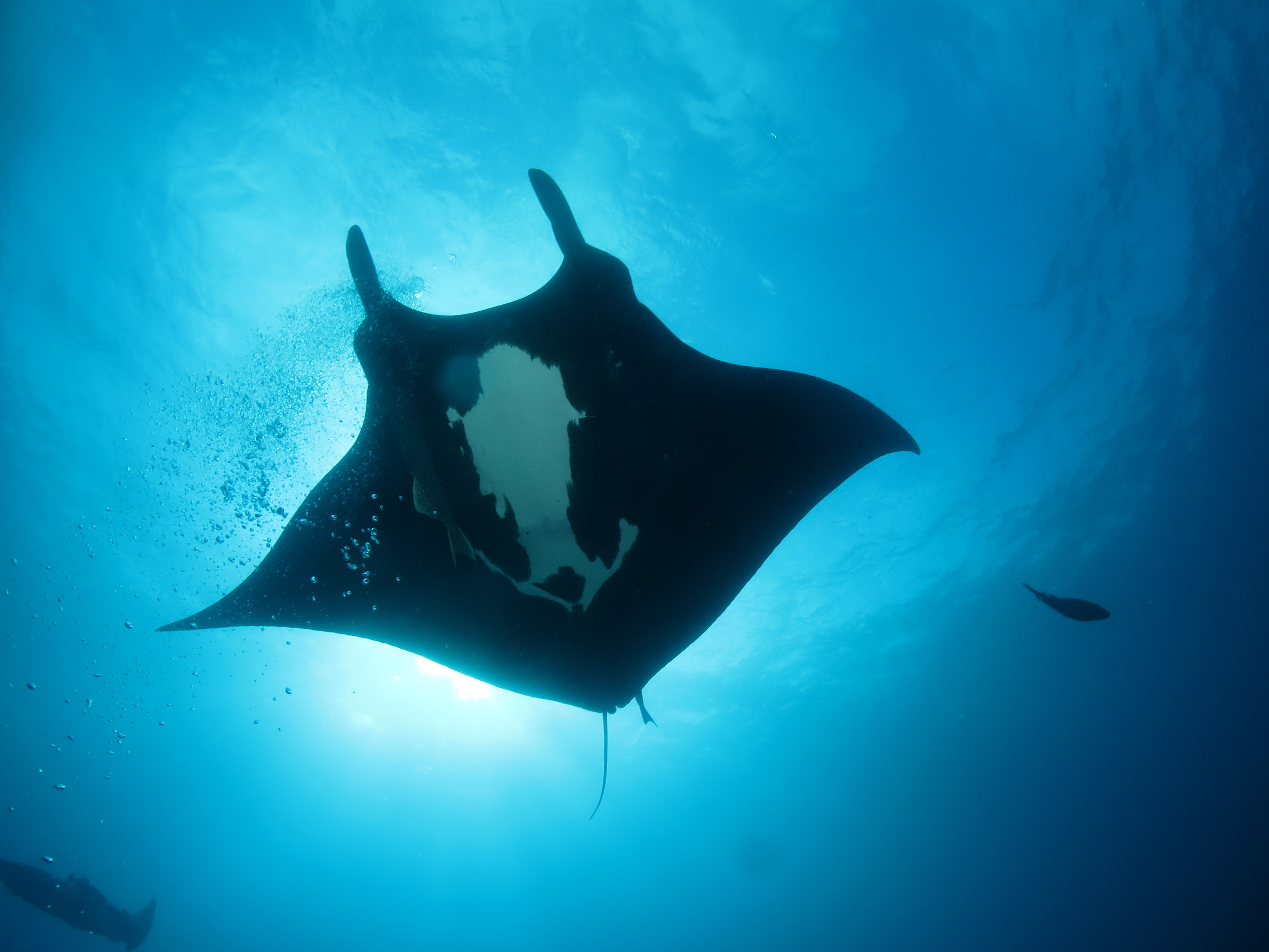 M. birostris (melanistic), Socorro. photo Steve Laycock UK